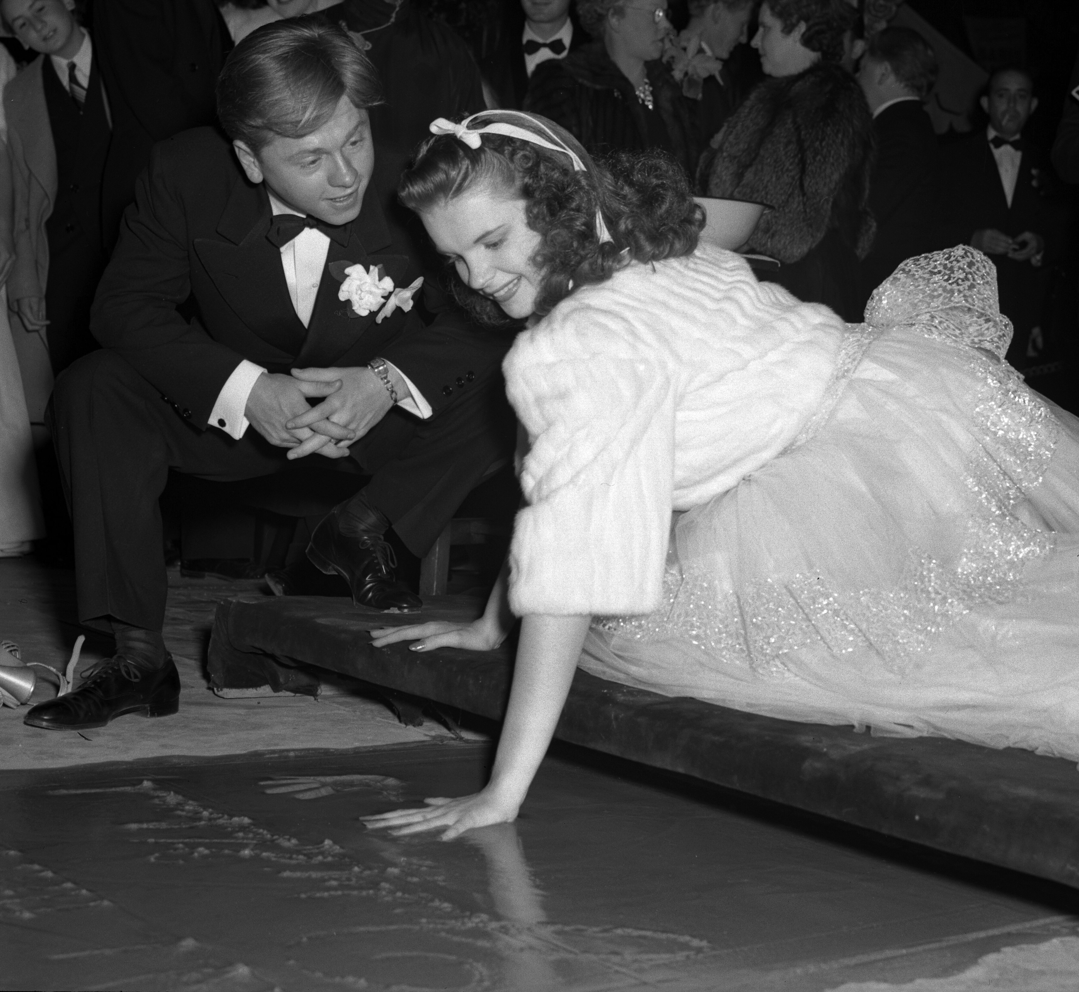 Title: Mickey Rooney watching Judy Garland put handprint in cement at Grauman's Theatre during Babes in Arms film premiere, 1939 Subjects: Chinese Theatre (Los Angeles, Calif.) --- Public appearances --- Hollywood Boulevard --- Hollywood Walk of Fame